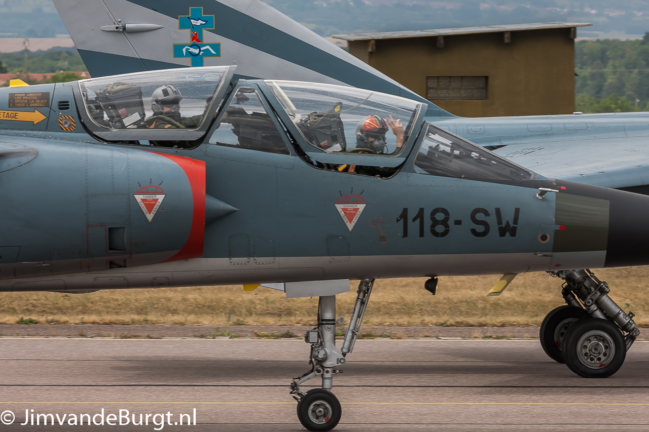 2014 Meeting de l'airir Base aerienne 133 Nancy-Ochey, France